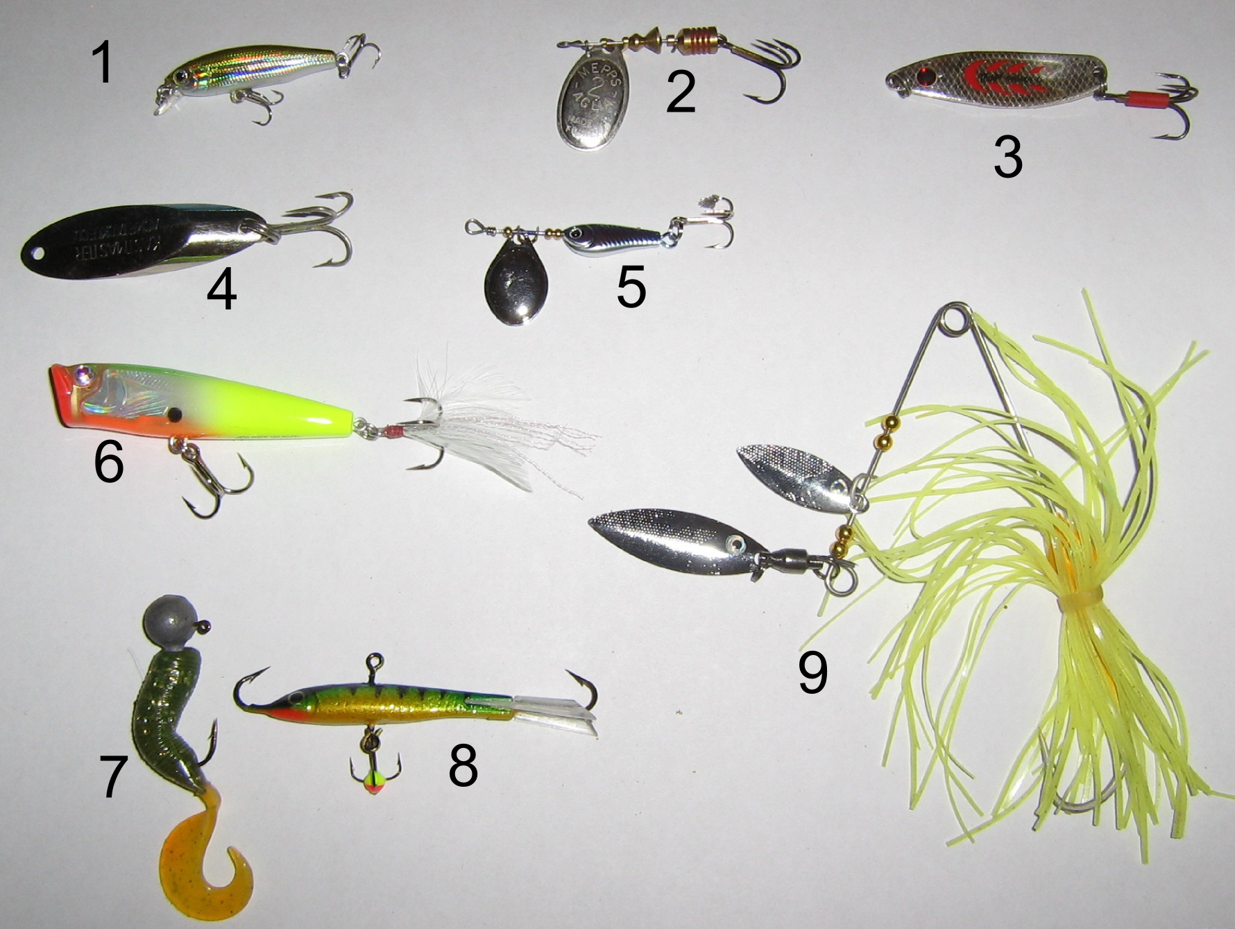 Most popular perch (Perca fluviatilis) fishing lures: 1 - wobbler, 2 - spinner lure, 3 - spoon lure, 4 - kastmaster, 5 - tail-spinner, 6 - topwater lure, 7 - soft plastic bait , 8 - balancer, 9 - spinnerbait.